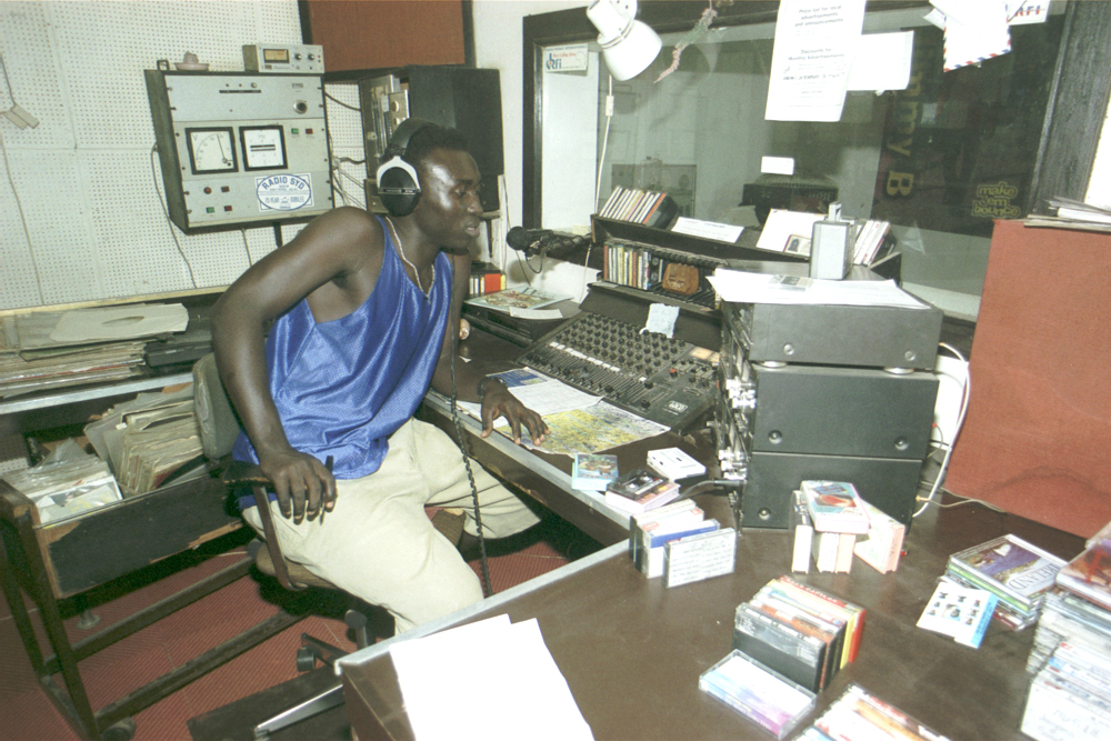 One of the studios of Radio Syd in The Gambia, West Africa.